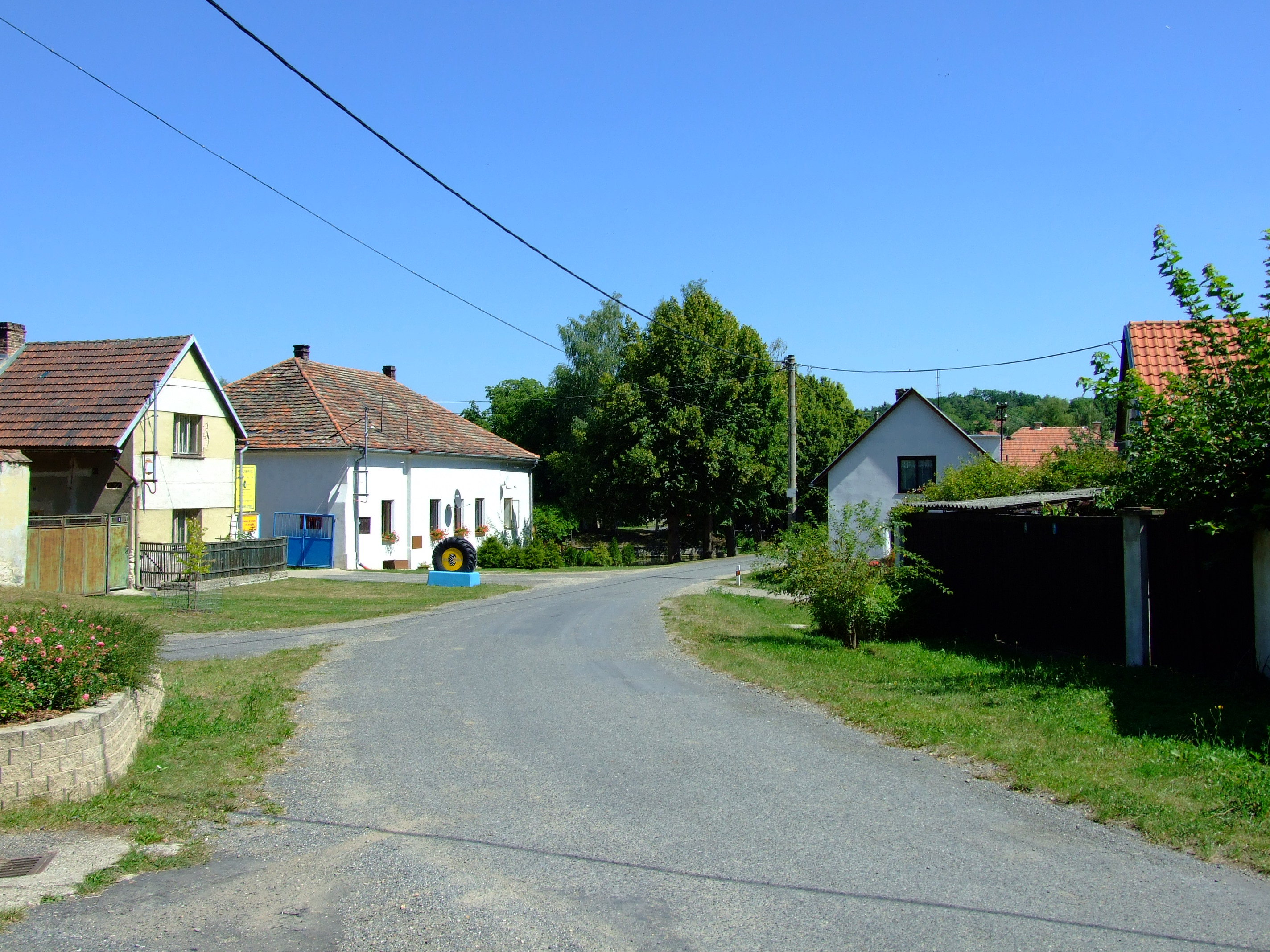 Jeviněves village, Mělník district, Central Bohemian region, CZhelp